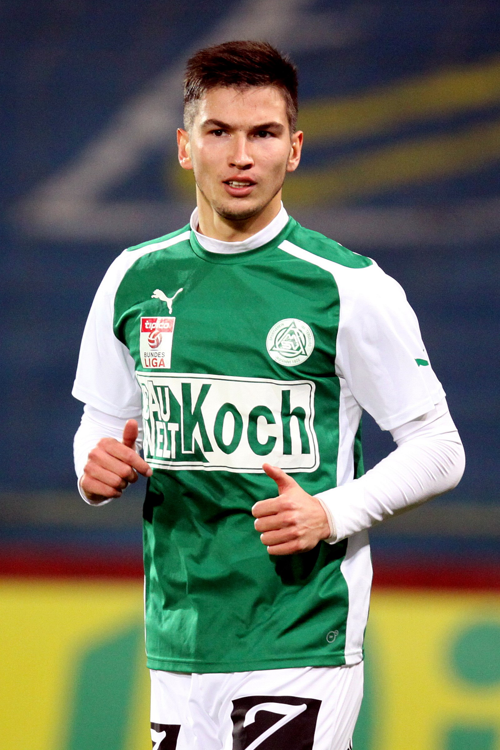 Match of the Austrian Football Bundesliga – FC Admira Wacker Mödling (red shirts) vs. SV Mattersburg (green-white shirts) 1-1 (1-1) on 2015-12-12 in Bundesstadion Sudstadt – The photo shows Vitalijs Maksimenko.